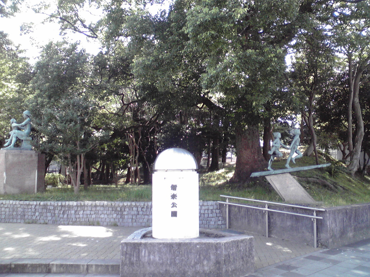 This is a park entrance of Tsu Kairaku Park.